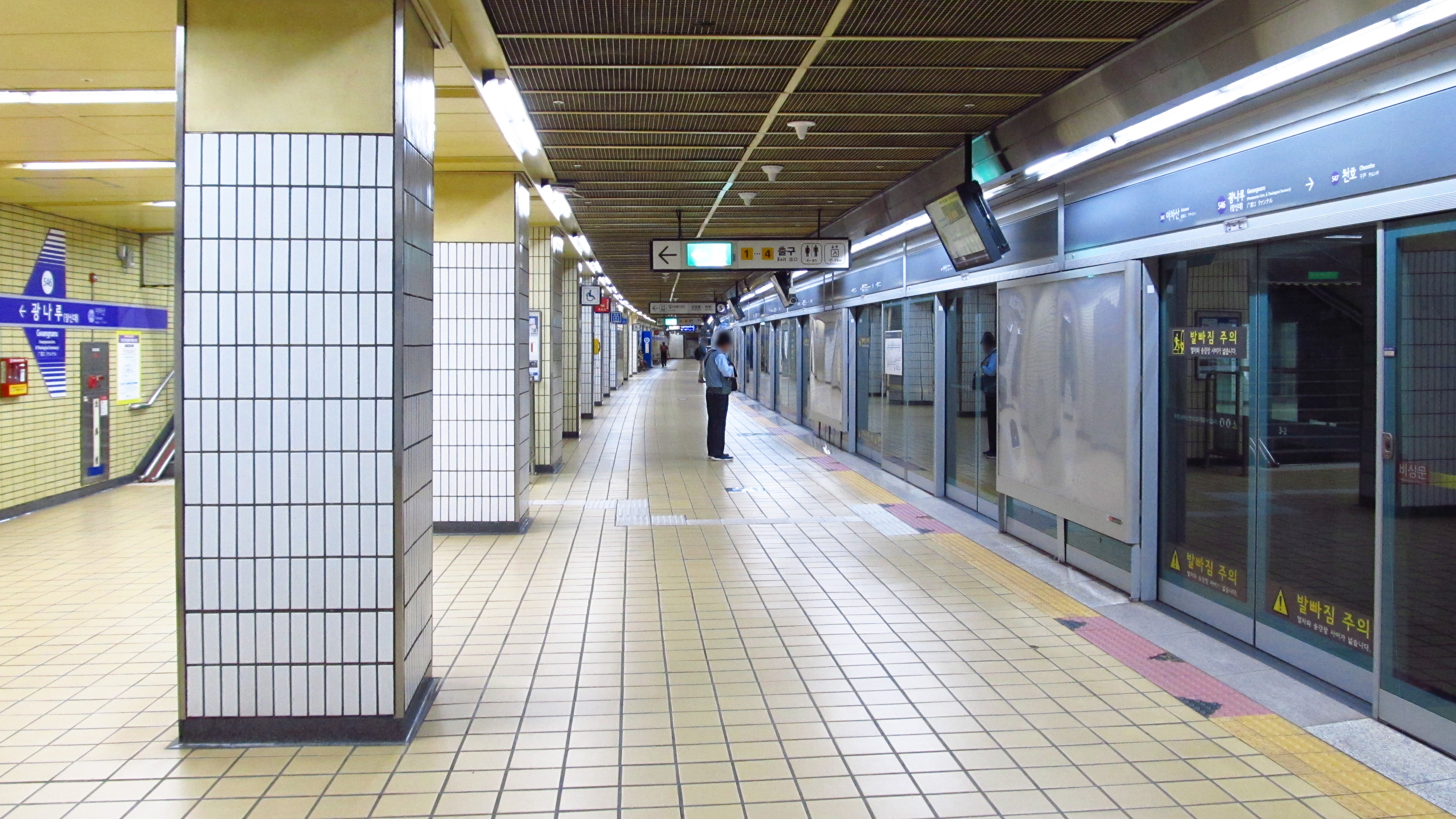 The platform at Gwangnaru Station on Seoul Subway Line 5 in Gwangjin-gu, Seoul, Republic of Korea(South Korea)